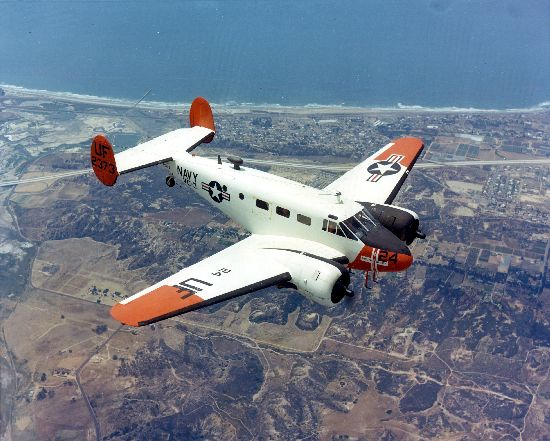 Beechcraft SNB-2 "Navigator" of the U.S. Navy in flight.